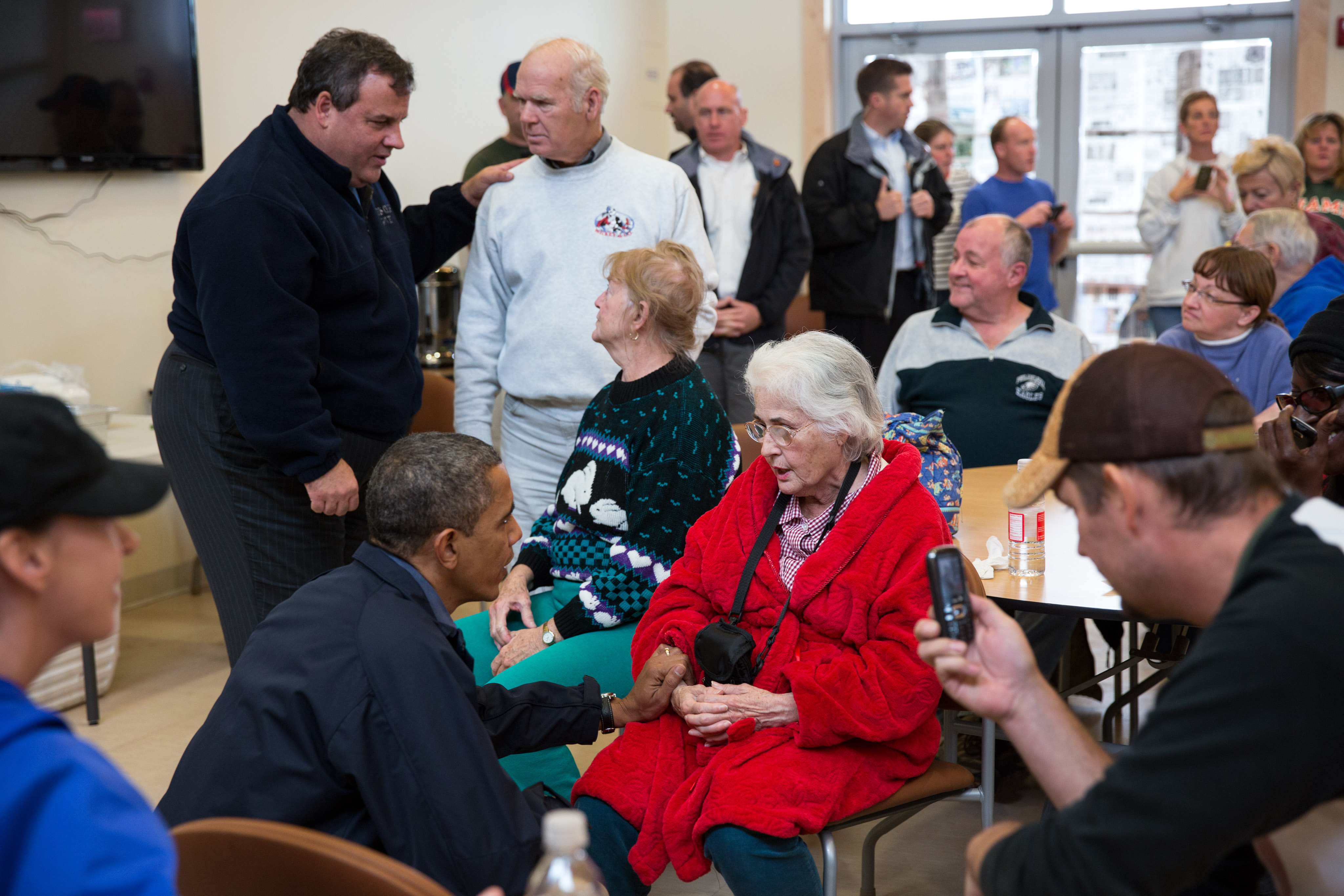 President Barack Obama and New Jersey Gov. Chris Christie talk with local residents at the Brigantine Beach Community Center in Brigantine, N.J., Oct. 31, 2012. (Official White House Photo by Pete Souza)